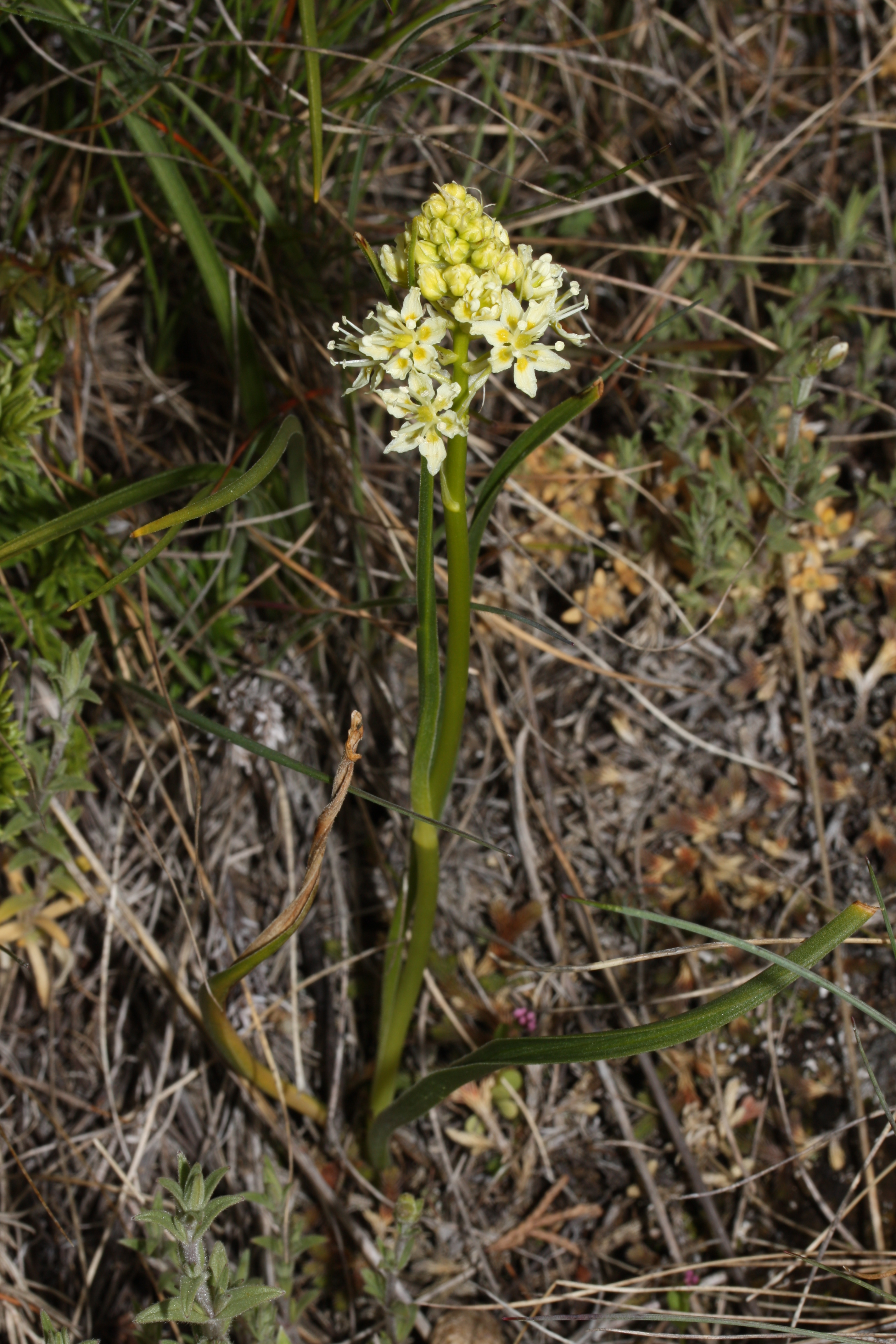 Meadow Death Camas, Common Death Camas